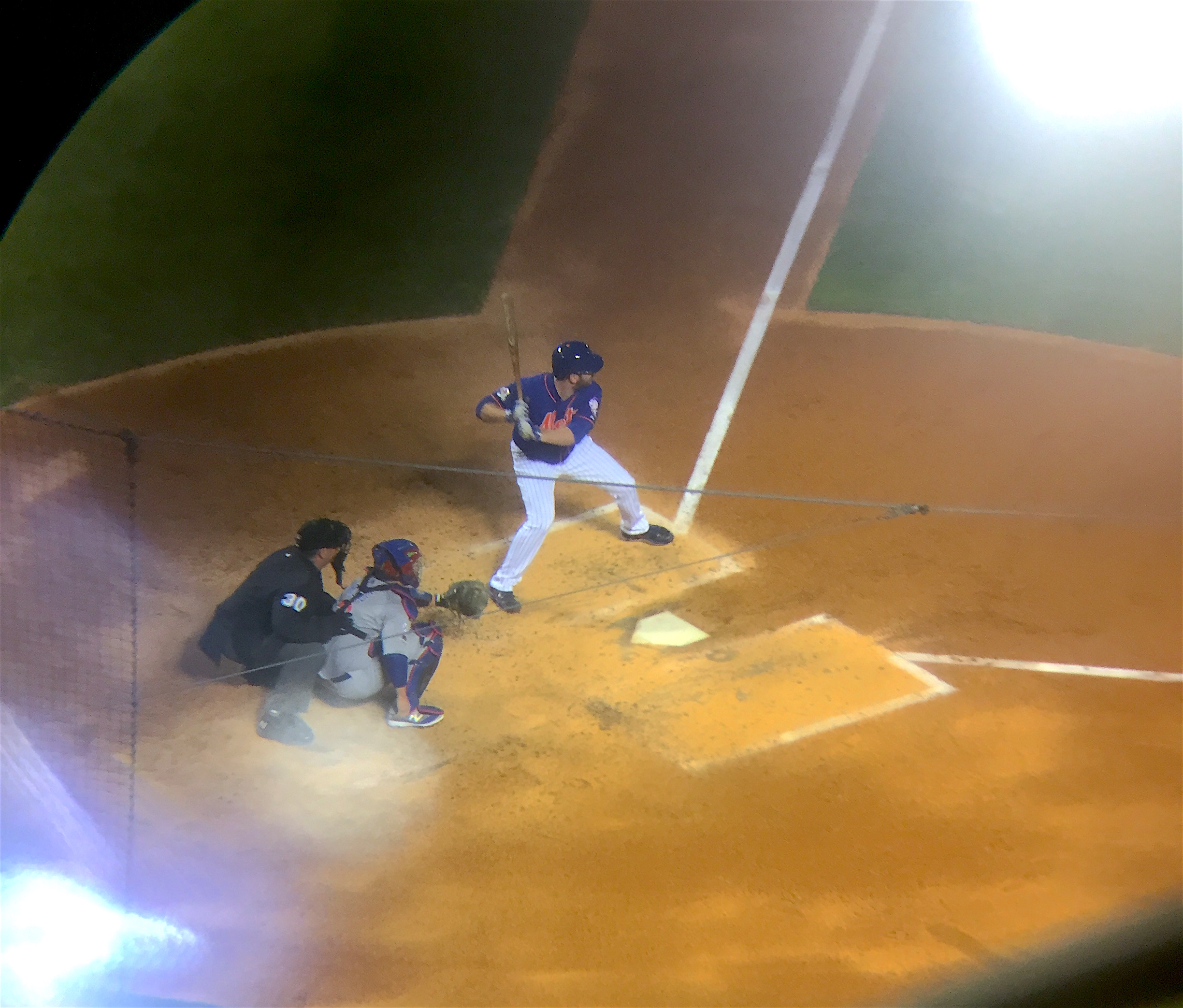 Matt Harvey of the New York Mets takes an at-bat against the Chicago Cubs in Game 1 of the 2015 National League Championship Series